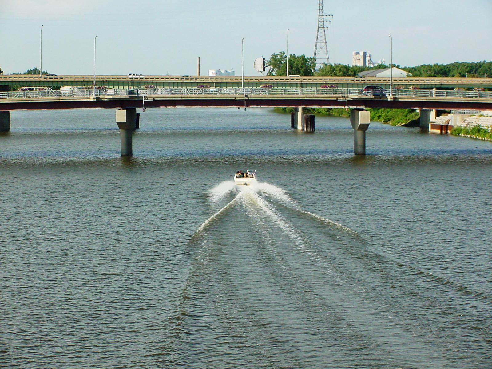 Photo provided by Saginaw Future. (A boat head north toward the Johnson Street bridge over the Saginaw River in Saginaw, Michigan.)